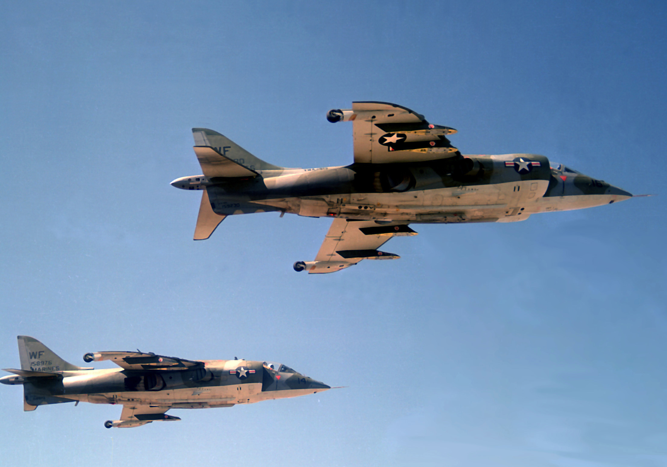 Two U.S. Marine Corps Hawker Siddeley AV-8A Harrier aircraft from Marine Attack Squadron VMA-513 Flying Nightmares in flight in 1974.